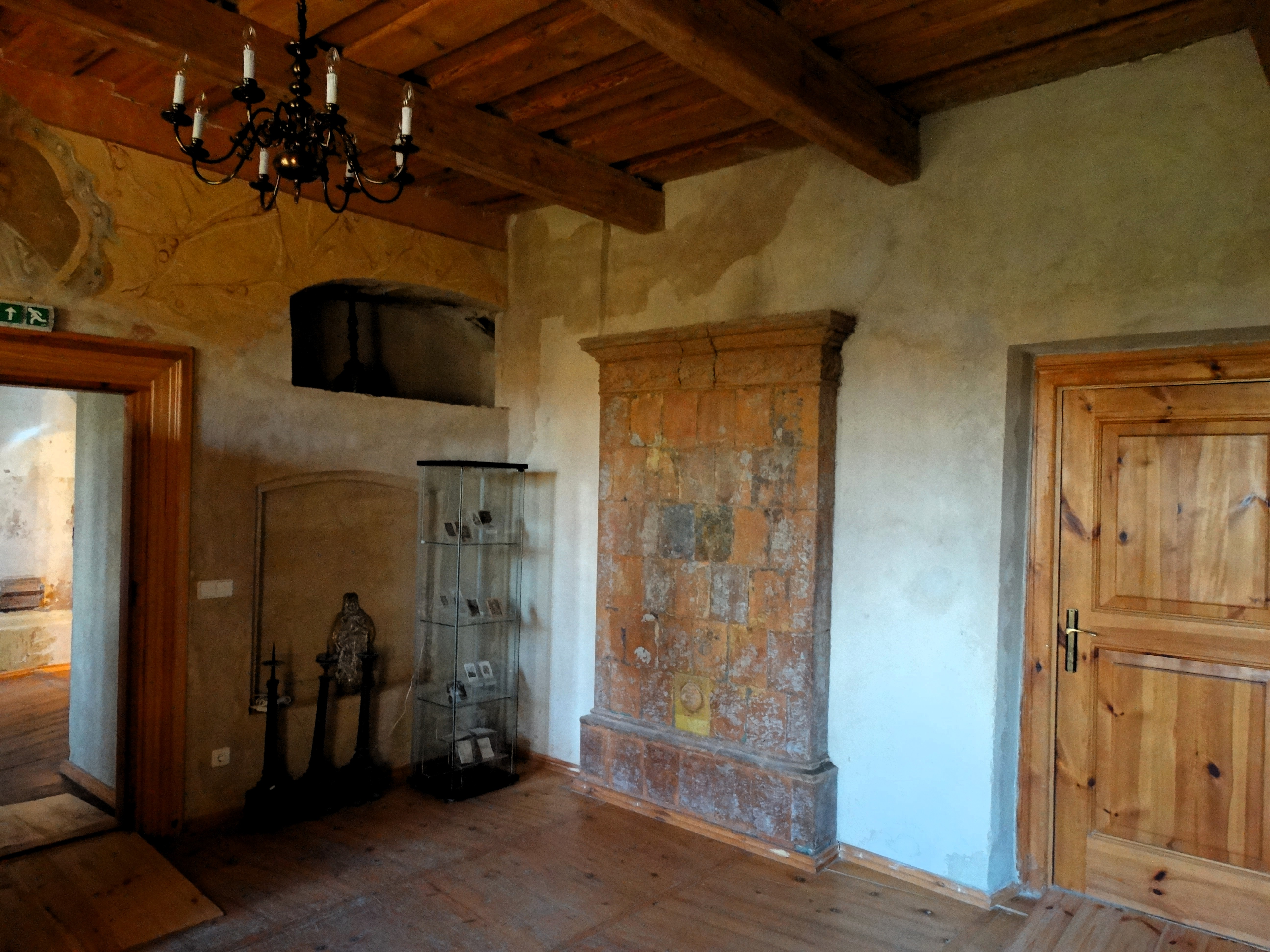 Videniškiai, museum in former monastery, Molėtai district, Lithuania